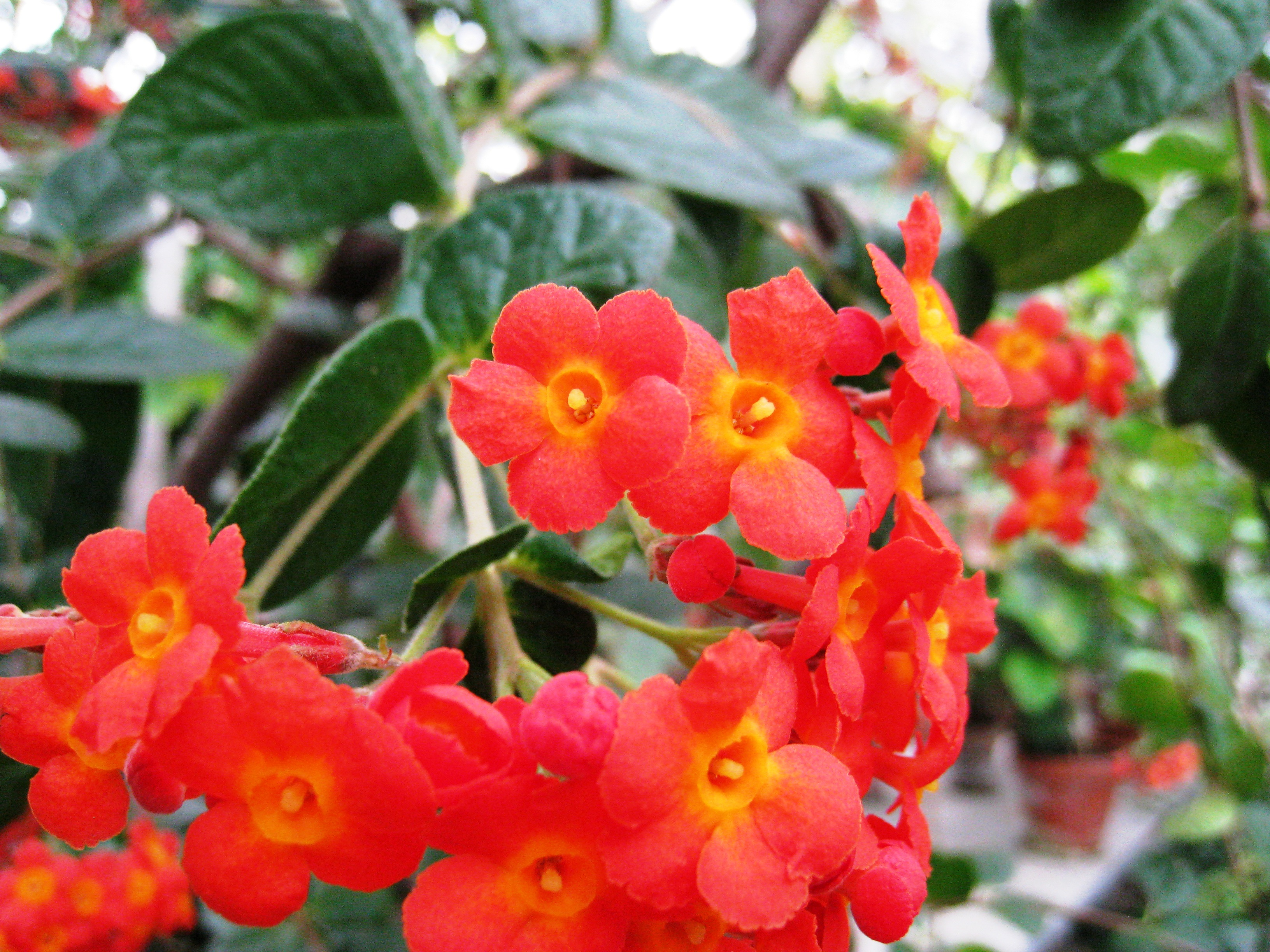 Specimen in cultivation at the Botanical Garden, University of Copenhagen, Denmark.